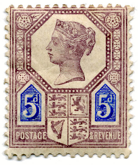 Scan of United Kingdom 5-pence stamp of 1887